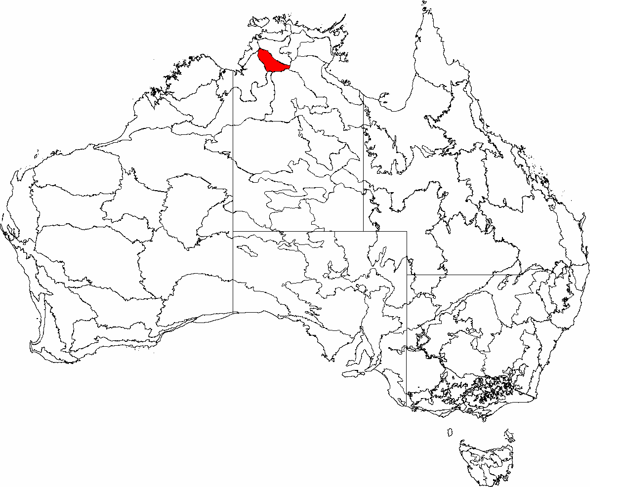 This is a map of the Interim Biogeographic Regionalisation of Australia (IBRA), with state boundaries overlaid. The Daly Basin region is shown in red.